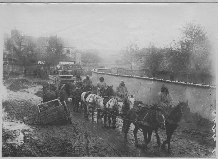 Village of Neokazi or Neohoraki village, Greece